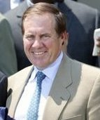 Bill Belichick, head coach of the New England Patriots of the National Football League (American football) in 2004.